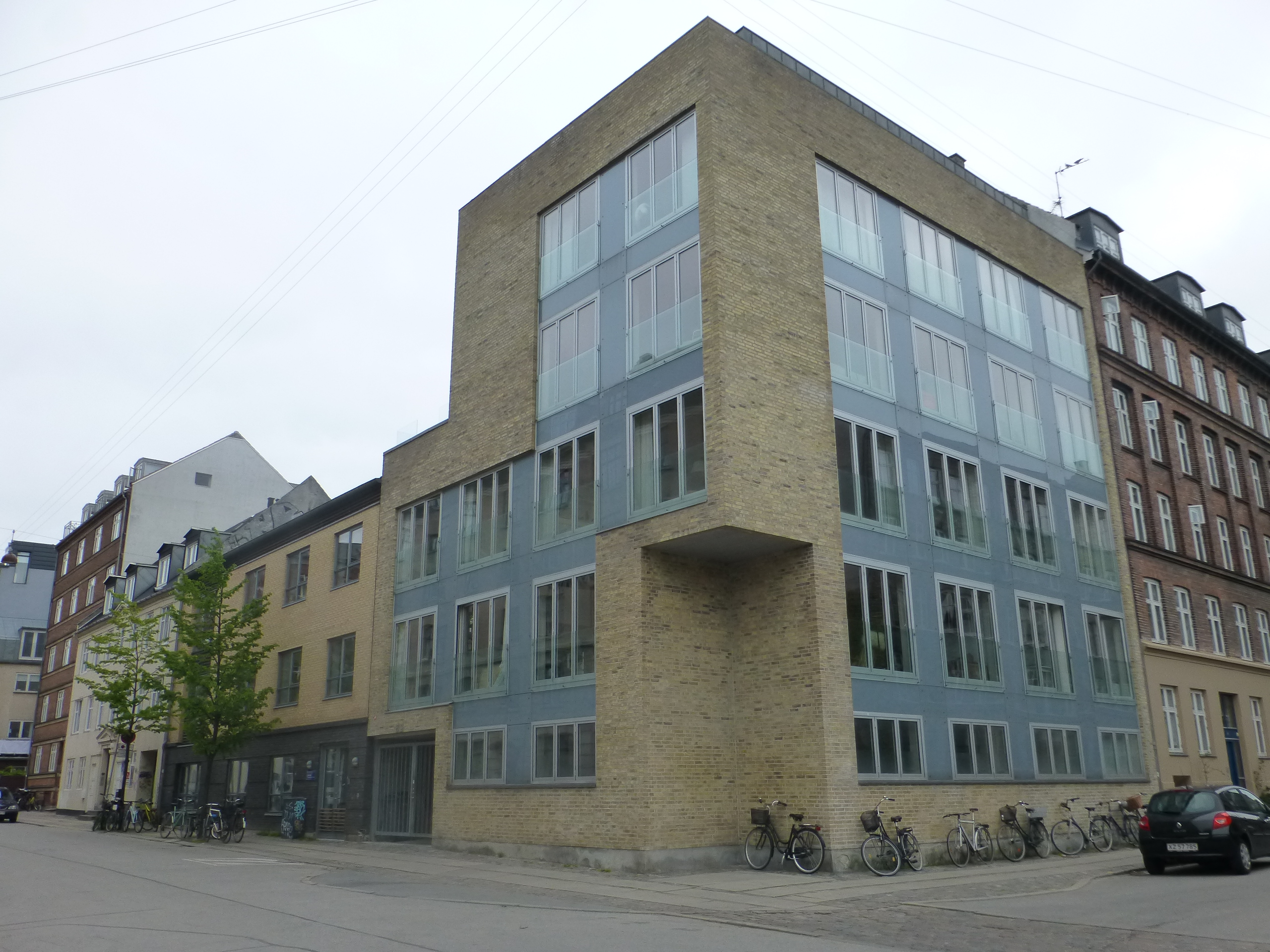 Building at the corner of Viborggade and Silkeborggade in Østerbro in Copenhagen.